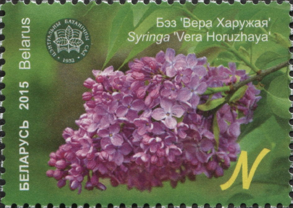 Stamps of Belarus, 2015